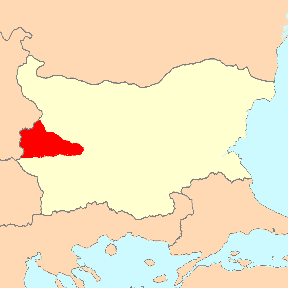 Breznik sheep area